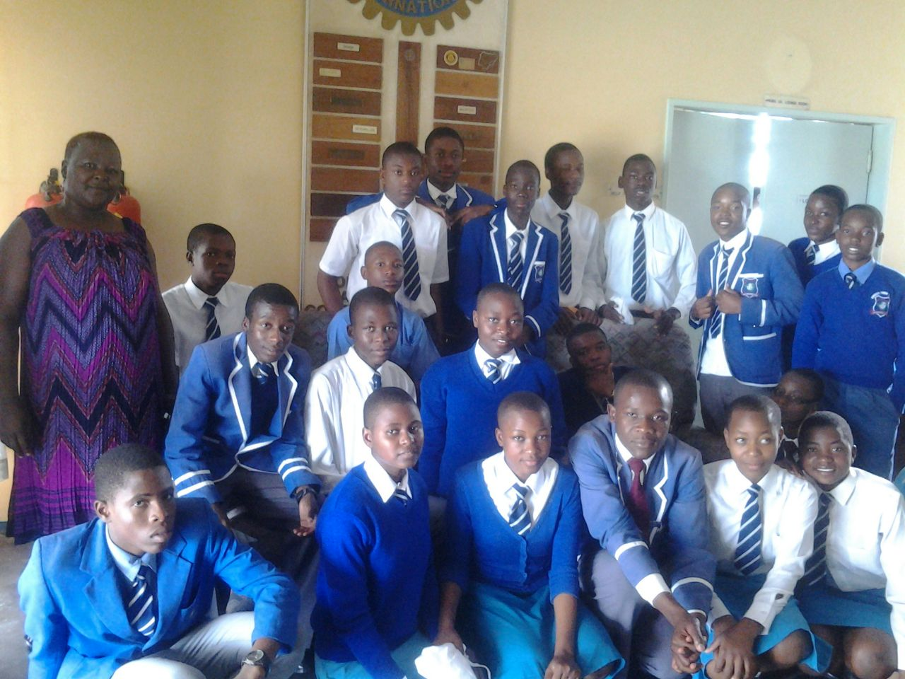 Interact club at Bumhudzo old people's home